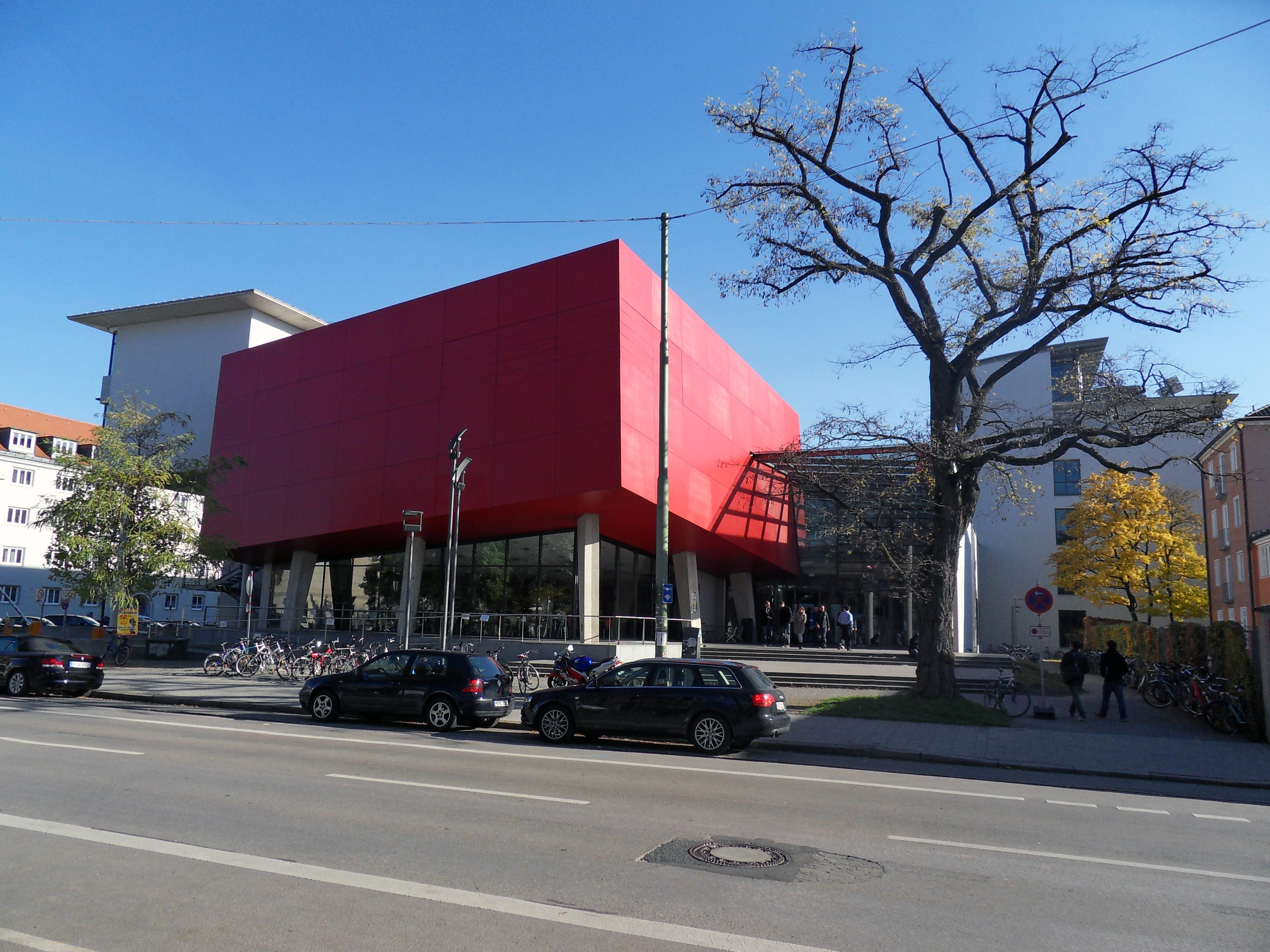 University Of Applied Sciences in Munich at Lothstraße 64